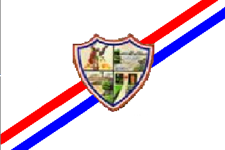 Falg of Salto del Guairá